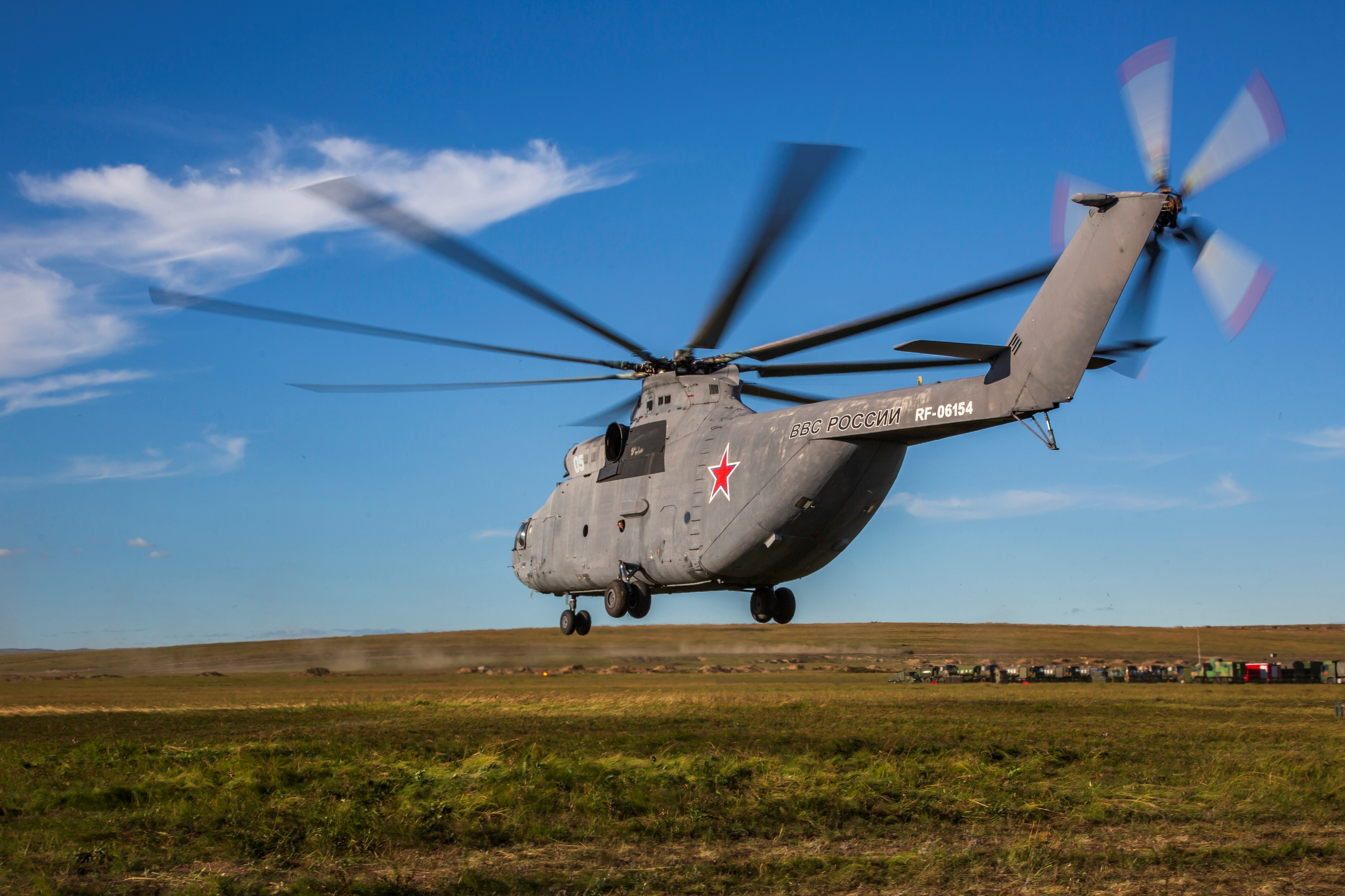 Mil Mi-26. Vostok 2018 Russian military exercises.